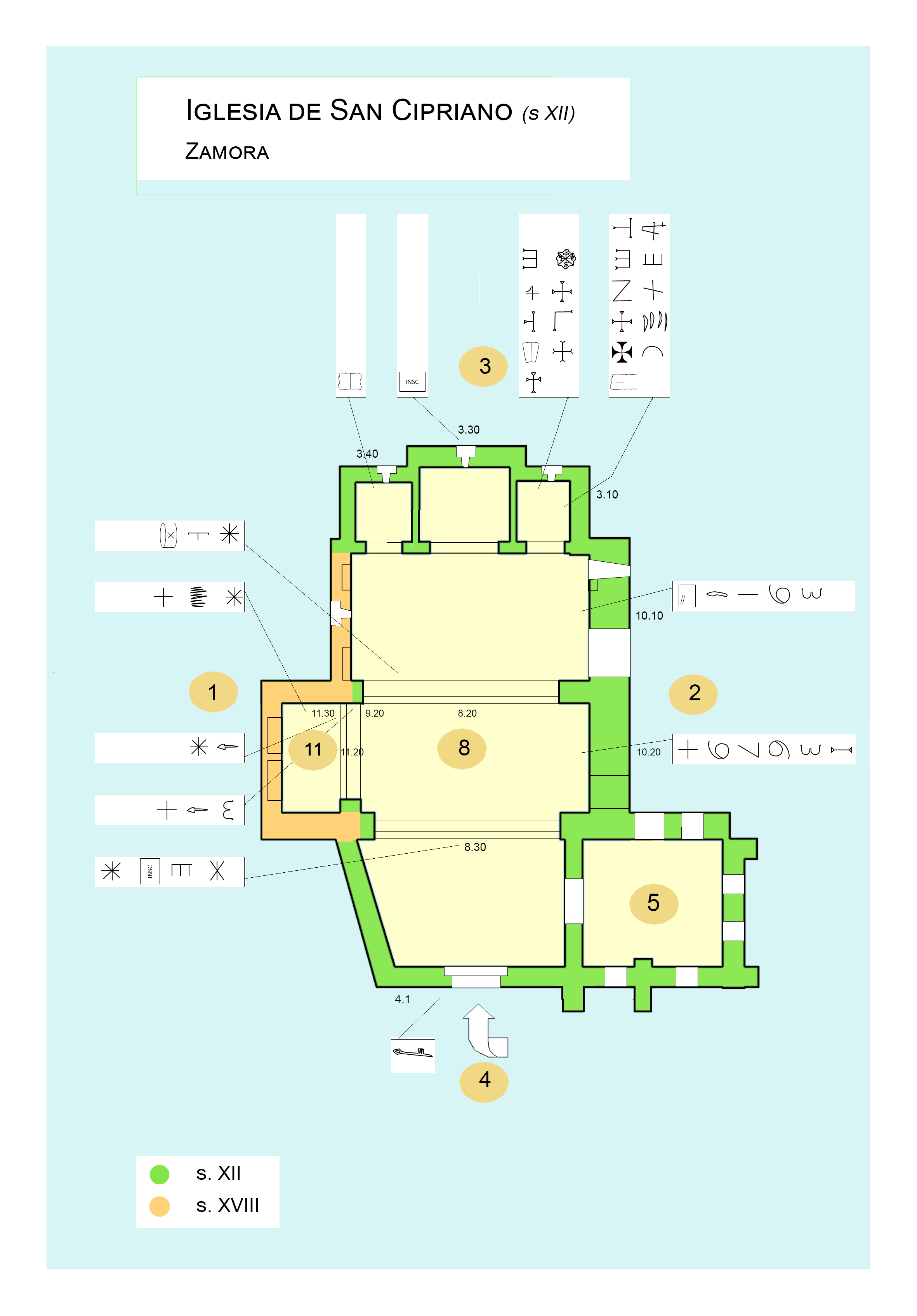 Plan appro. and stonecutter marks in San Cipriano church, ZAMORA Spain, romanesque s. XII.